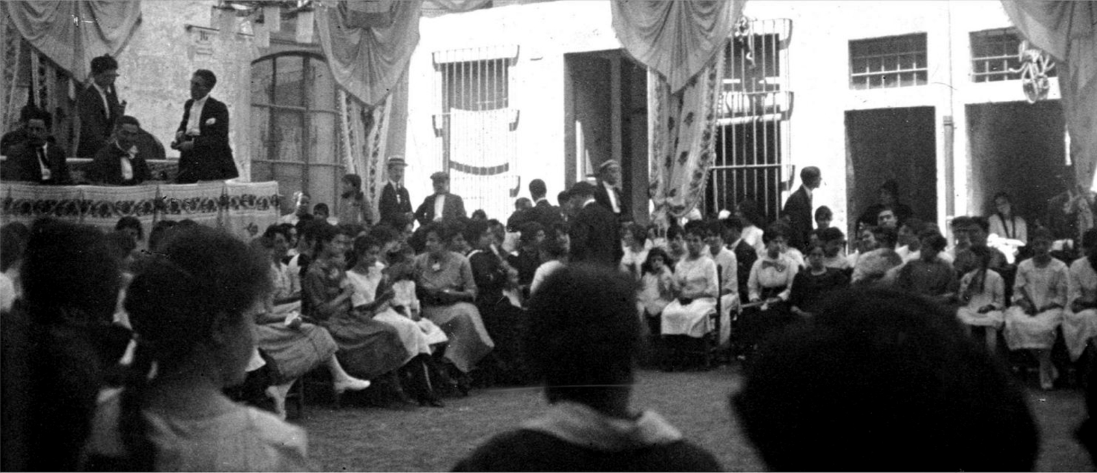 Inside of "Entoldado de Fiesta Mayor" in Arenys de Mar 1920